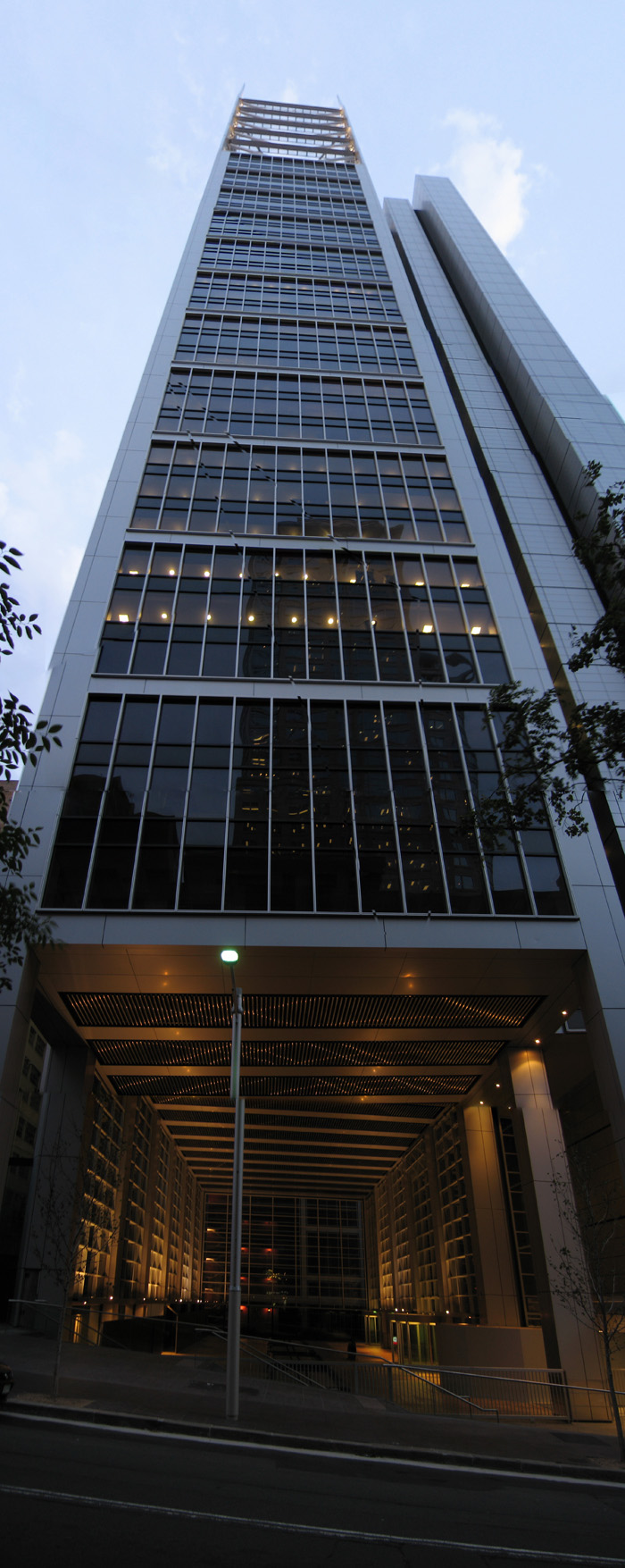 Deutsche Bank building - Sydney